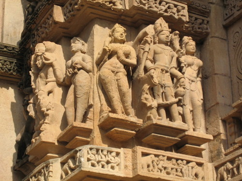 Own camera. Photo taken on 27.03.2008